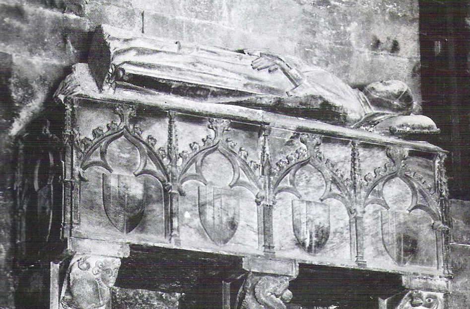 Gothic Tomb of Ermessenda, Countess of Barcelona and Girona. 10th century.